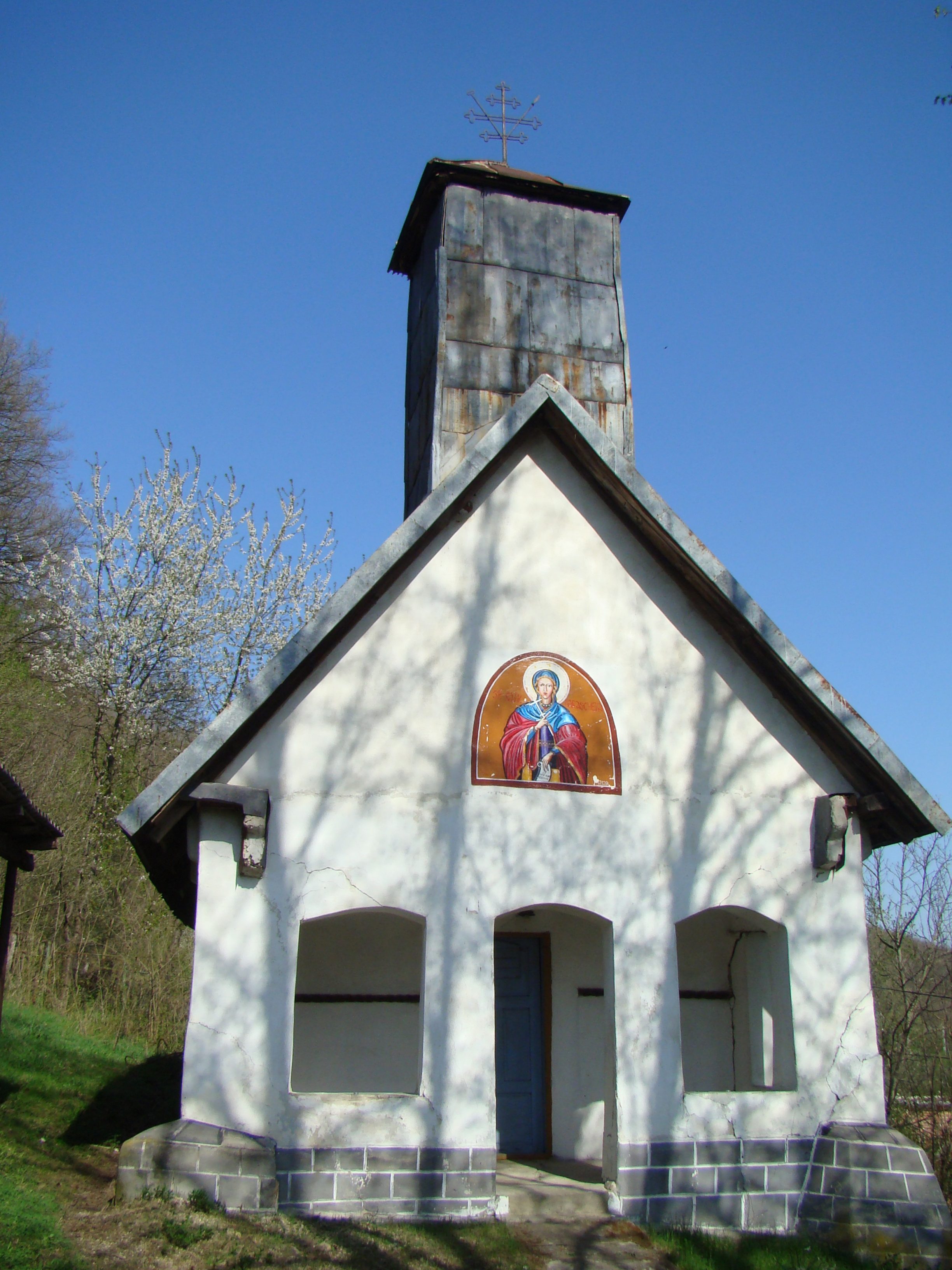 Wooden church in Duțești, Gorj county, Romania